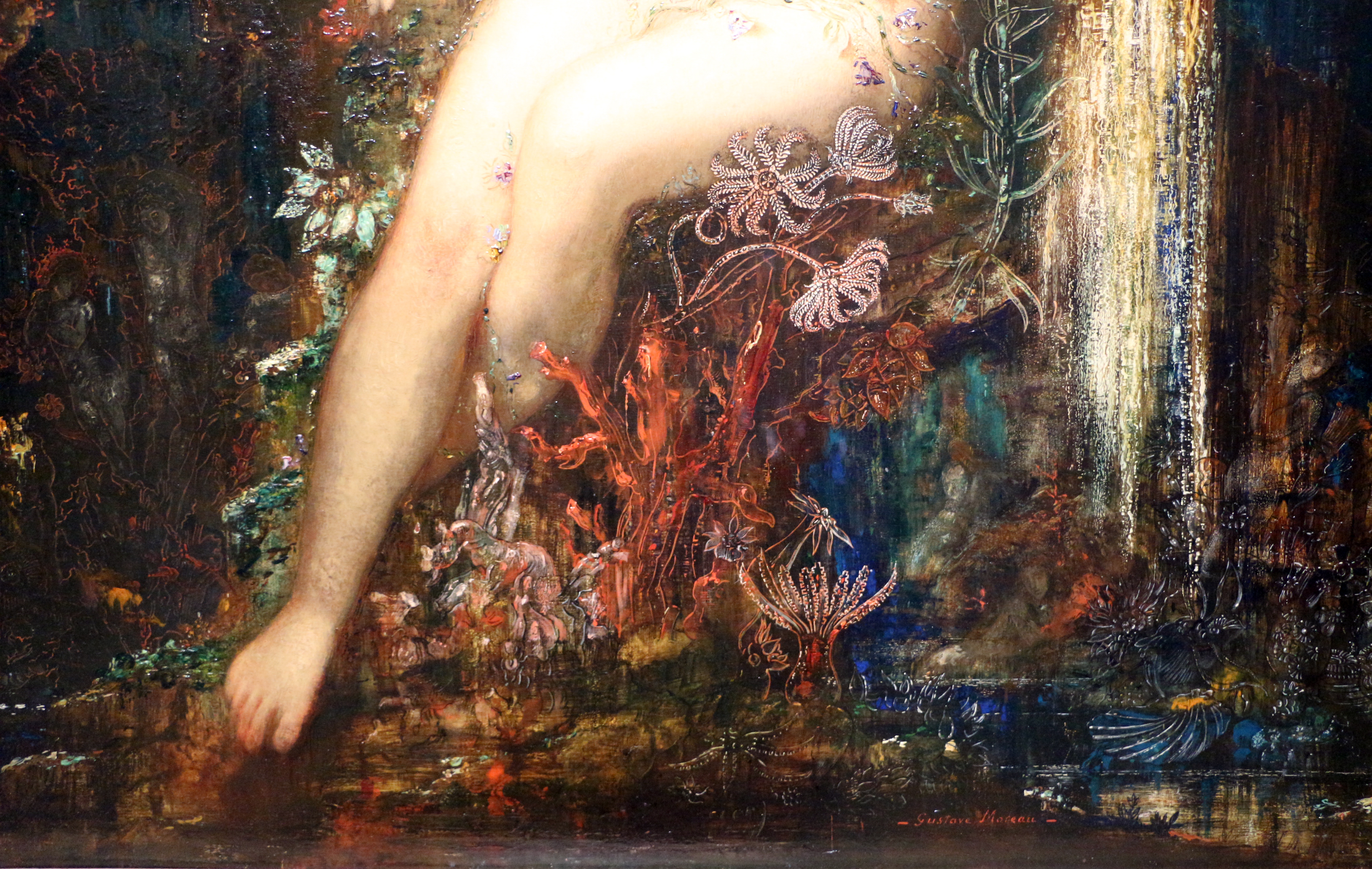 Paintings in Musée d'Orsay